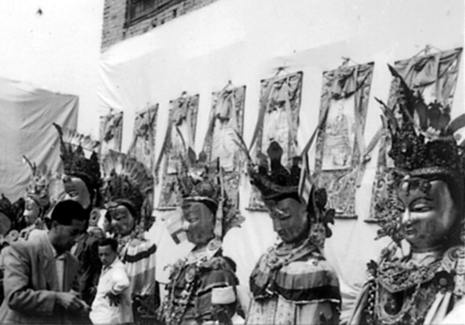 Images of Dipankar Buddha displayed at Swayambhu, Kathmandu during Swanya Punhi (Buddha's birthday celebration), 1960s.